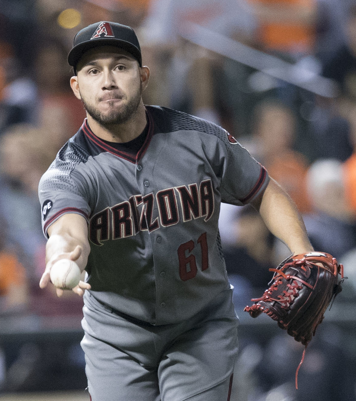 Silvino Bracho of the Arizona Diamondbacks tosses a baseball during a game against the Baltimore Orioles in 2016.